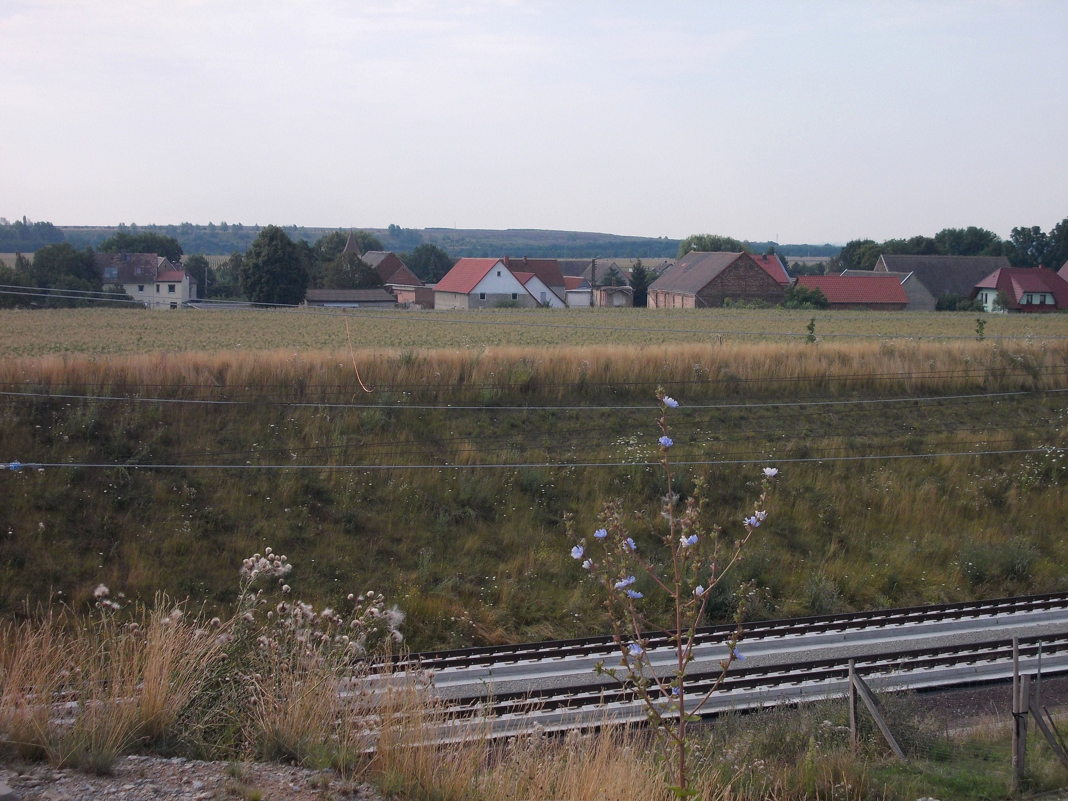 The village of Dörstewitz (Schkopau, district: Saalekreis, Saxony-Anhalt) behind the rails of the new high-speed line between Leipzig/Halle and Erfurt